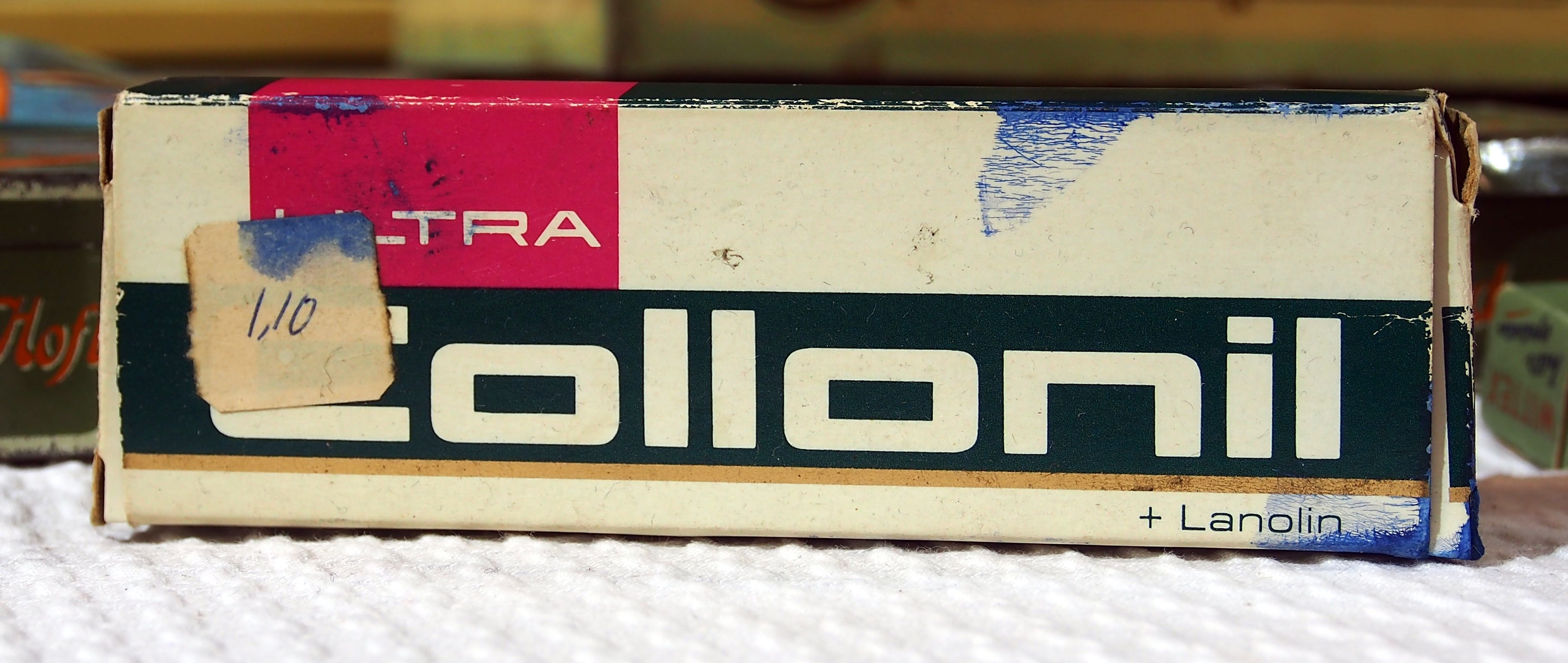 Old product that is not sold/produced anymore!